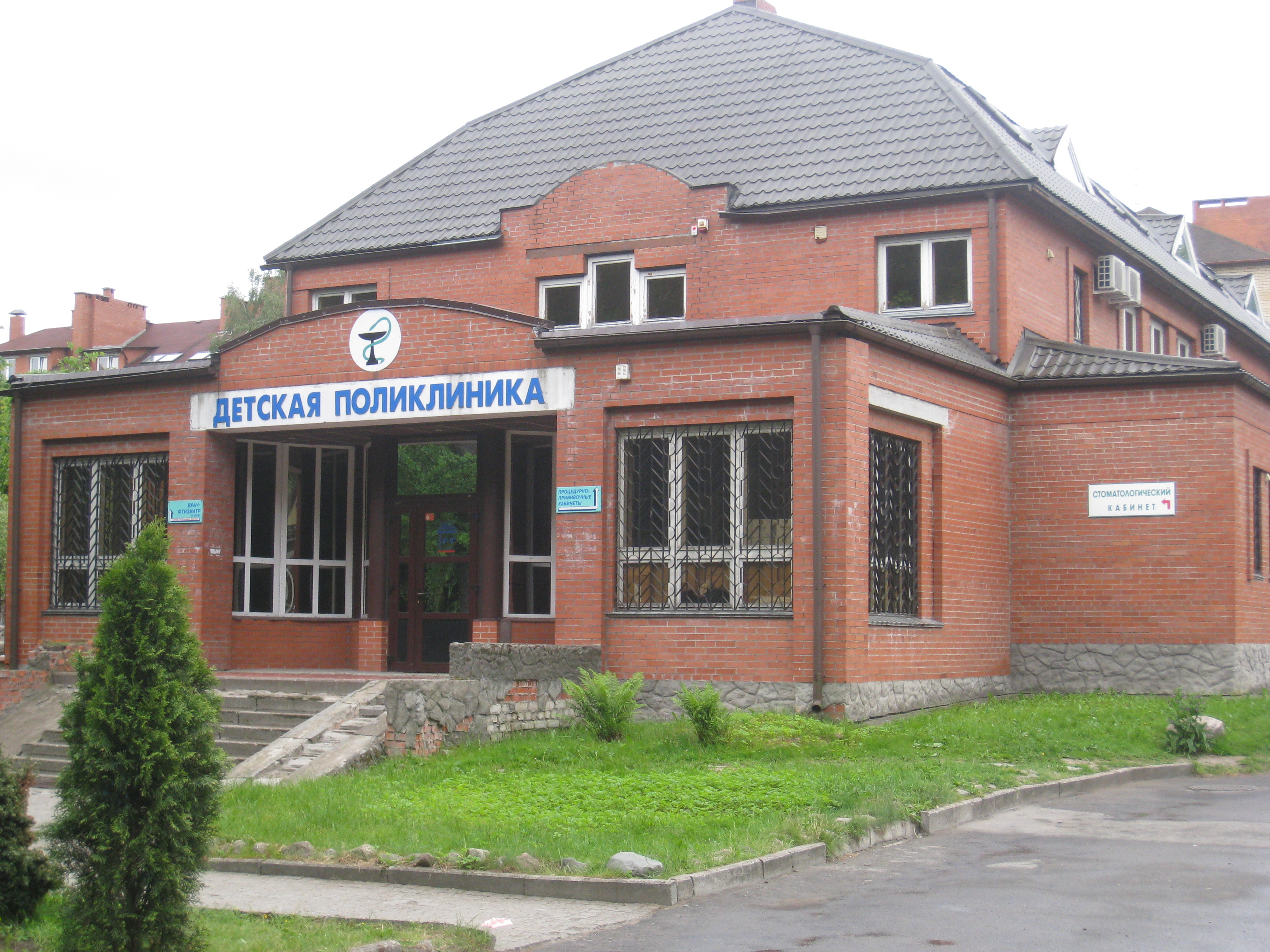 building